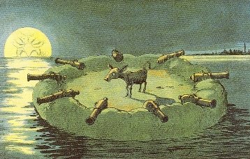 Caricature from Blæksprutten 1904: Saltholm is depicted as a fortress with Minister of War, V.H.O. Madsen, in the background.